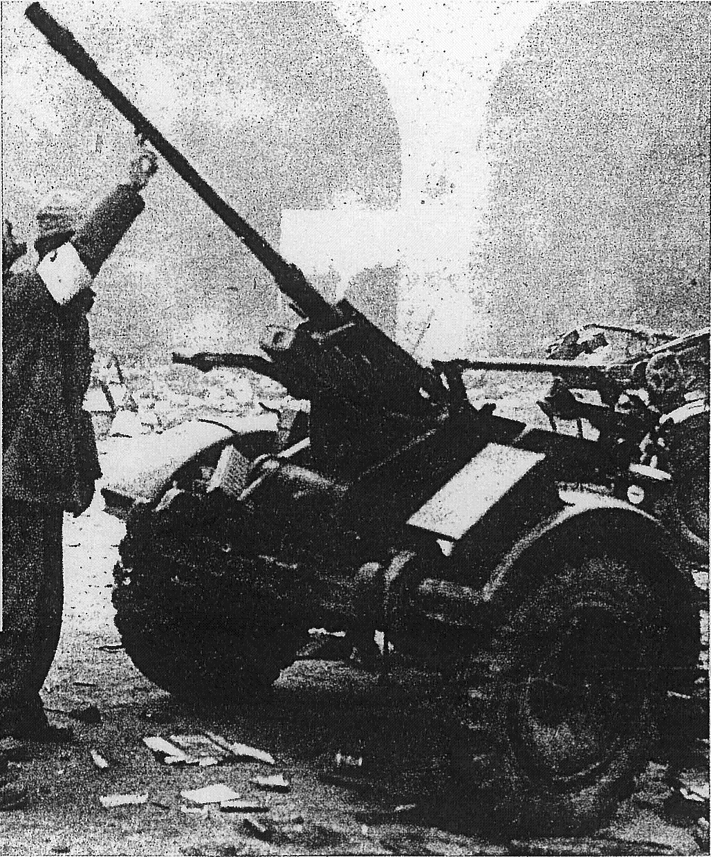 Advanced anti-aircraft gun left by National Revolutionary Army in Nanking (December, 1937)